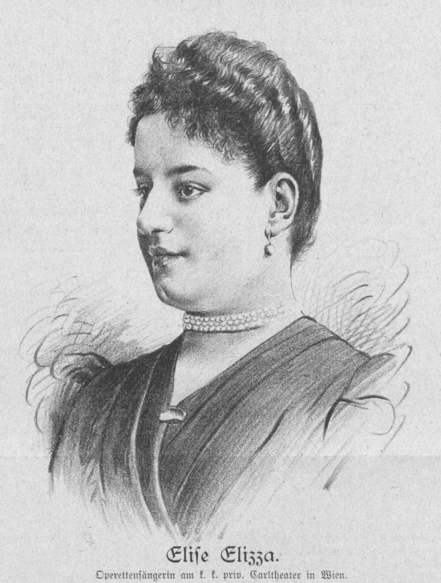 Portrait of Elise Elizza (1870-1926), Austrian opera singers.